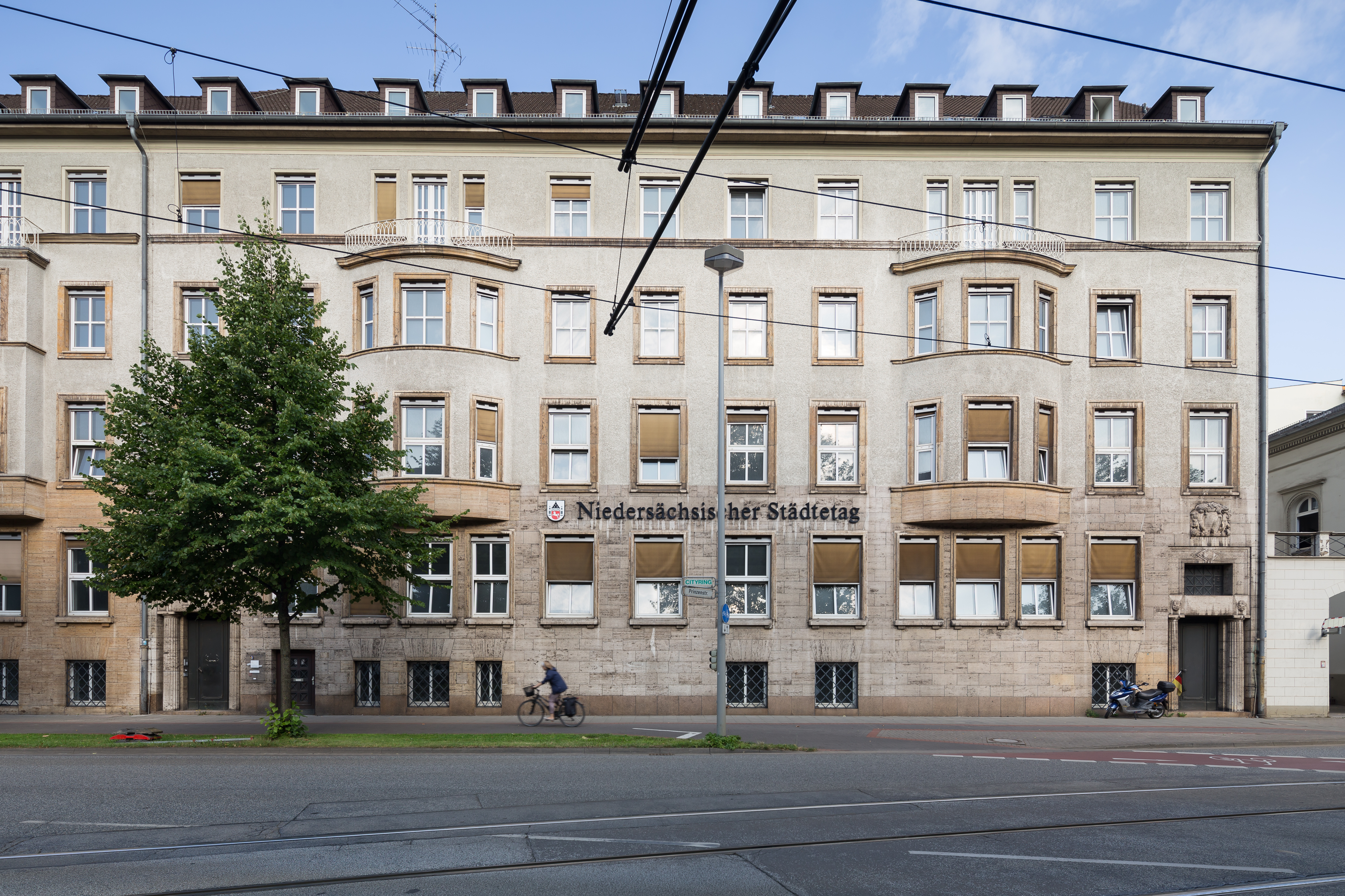 Former office building of the of the German association of cities in Lower Saxony. The house was originally erected as "Bankhaus Caspar" and is located at Prinzentrasse in Hanover, Germany. It will be demolished soon.